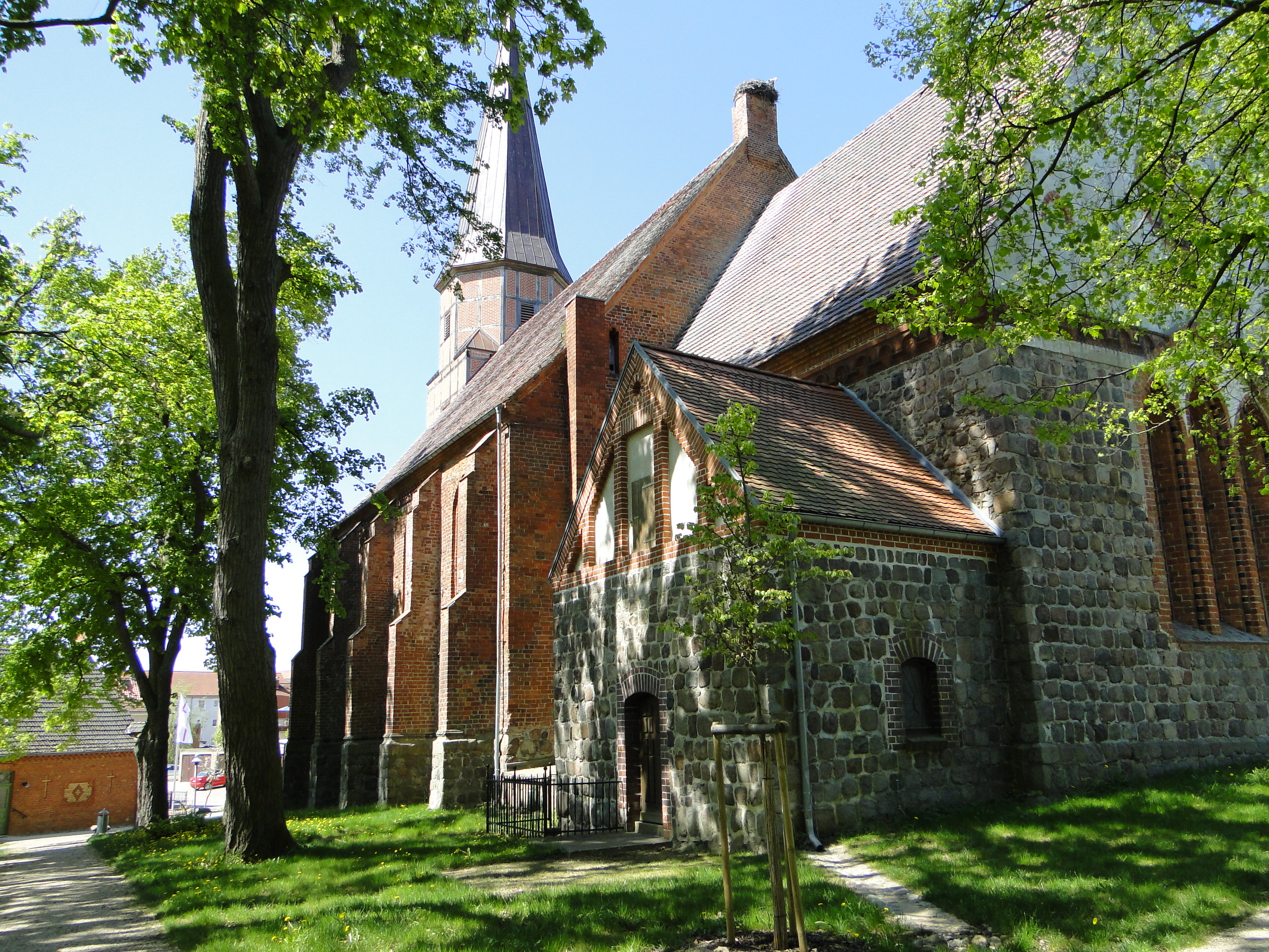 Church St. Petri in Woldegk, district Mecklenburg-Strelitz, Mecklenburg-Vorpommern, Germany